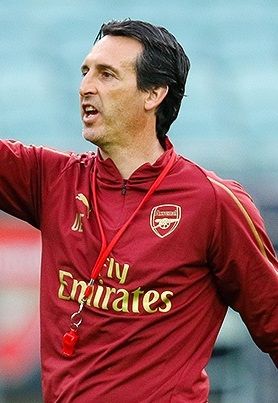 Unai Emery